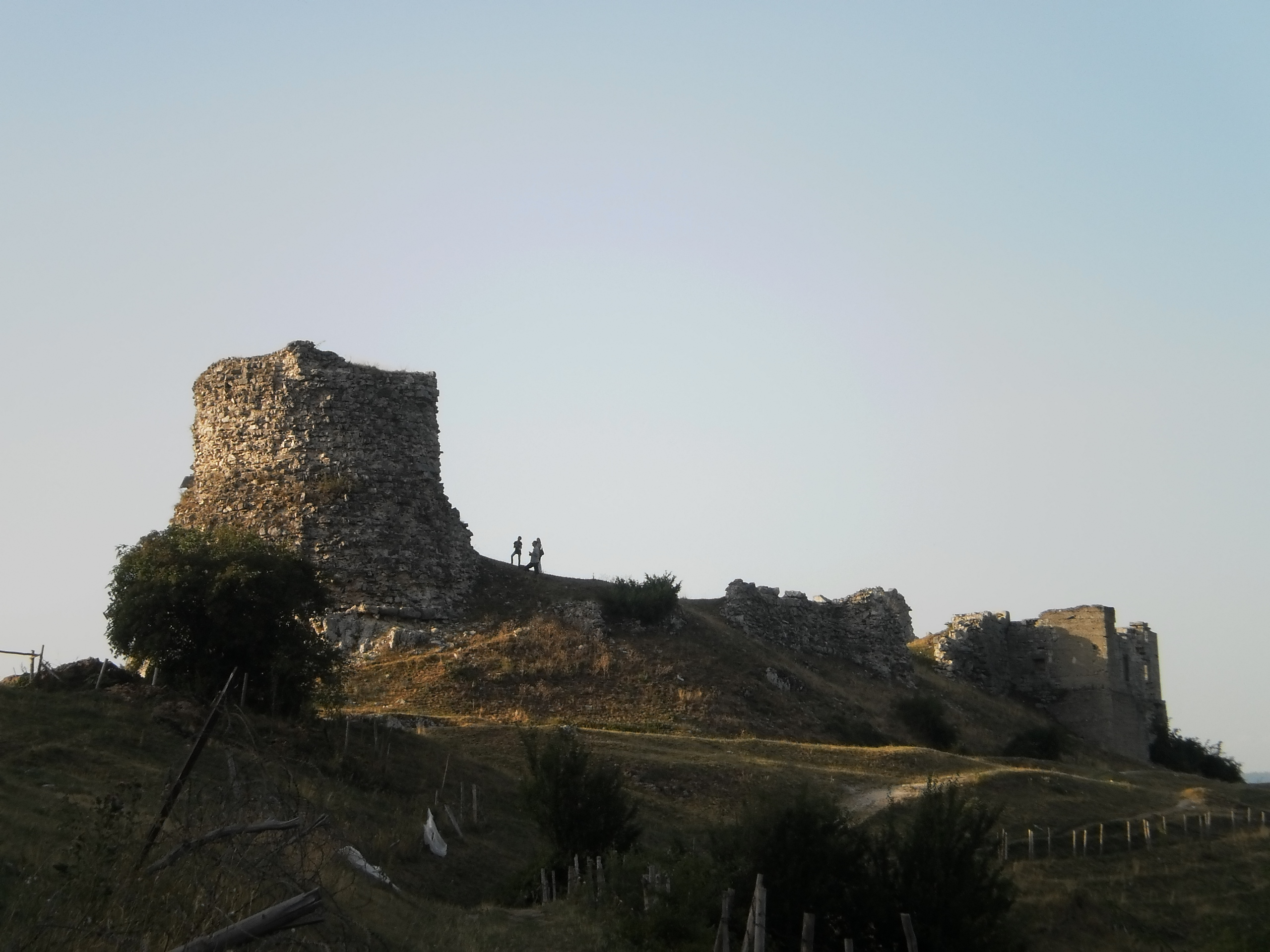 Glamoč Fortress